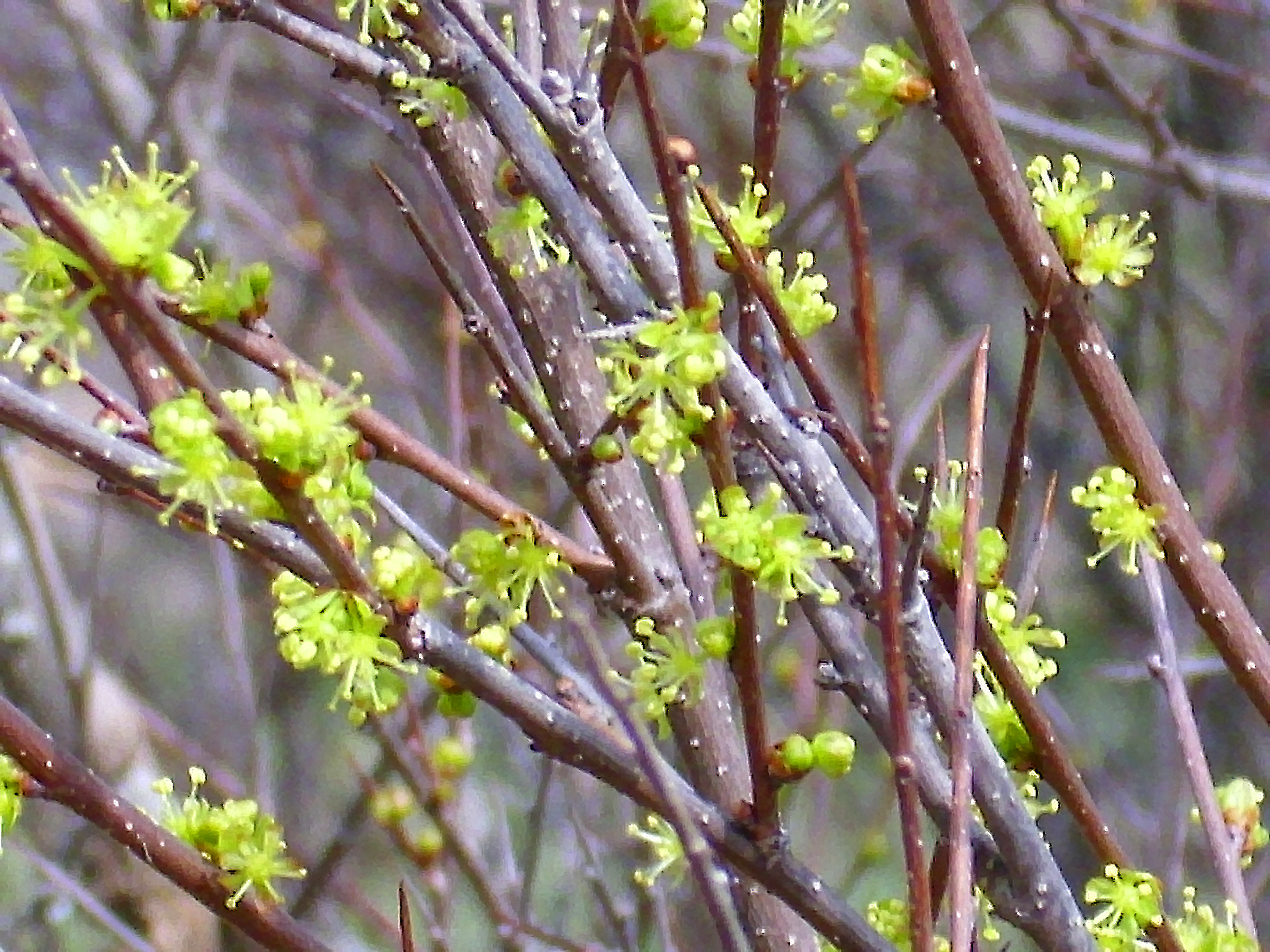 Flueggea tinctoria close up, Sierra Madrona, Spain